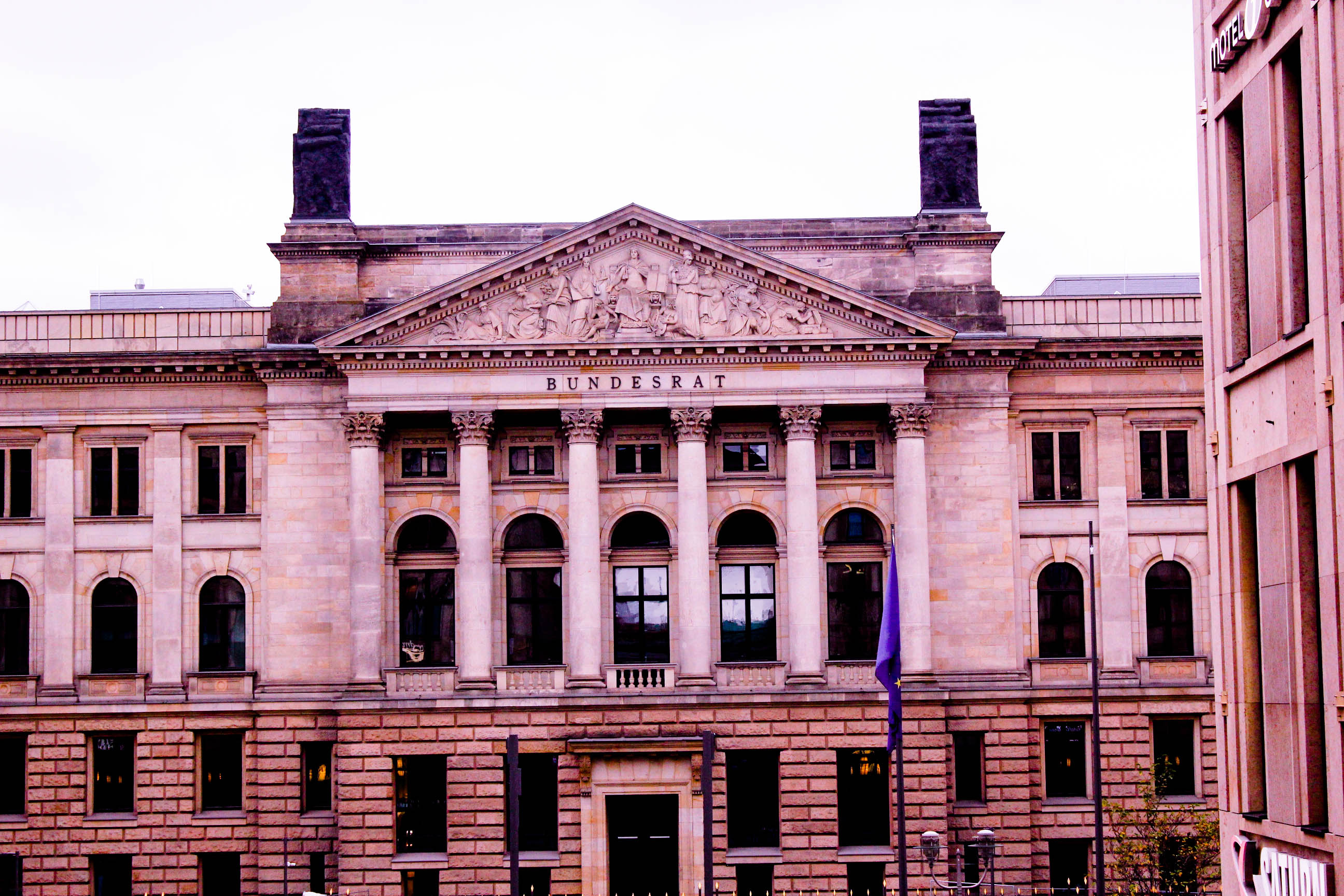 Bundesrat der BRD - Aussicht vom Mall of Berlin